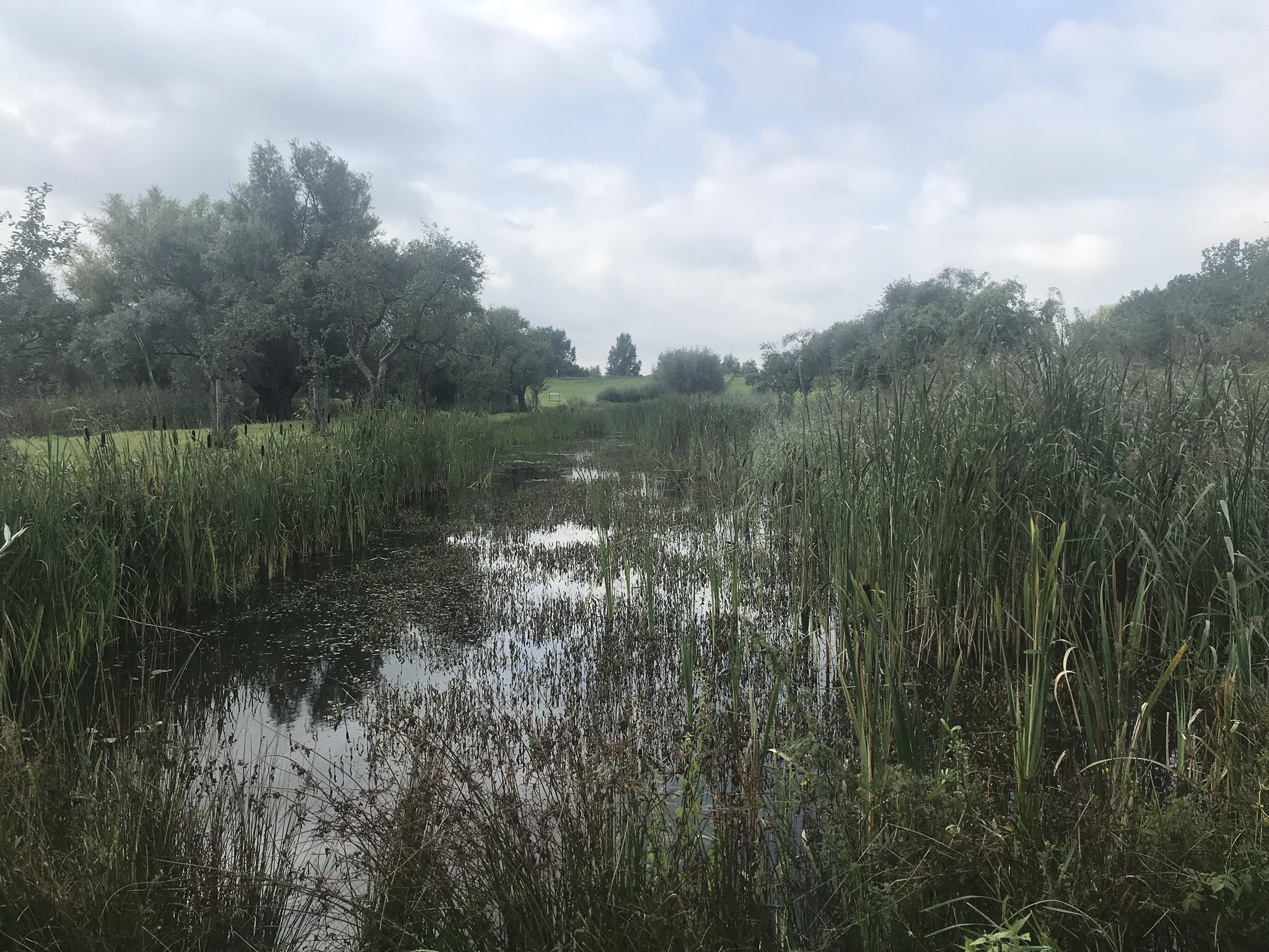 Pond naar Schalkwijk